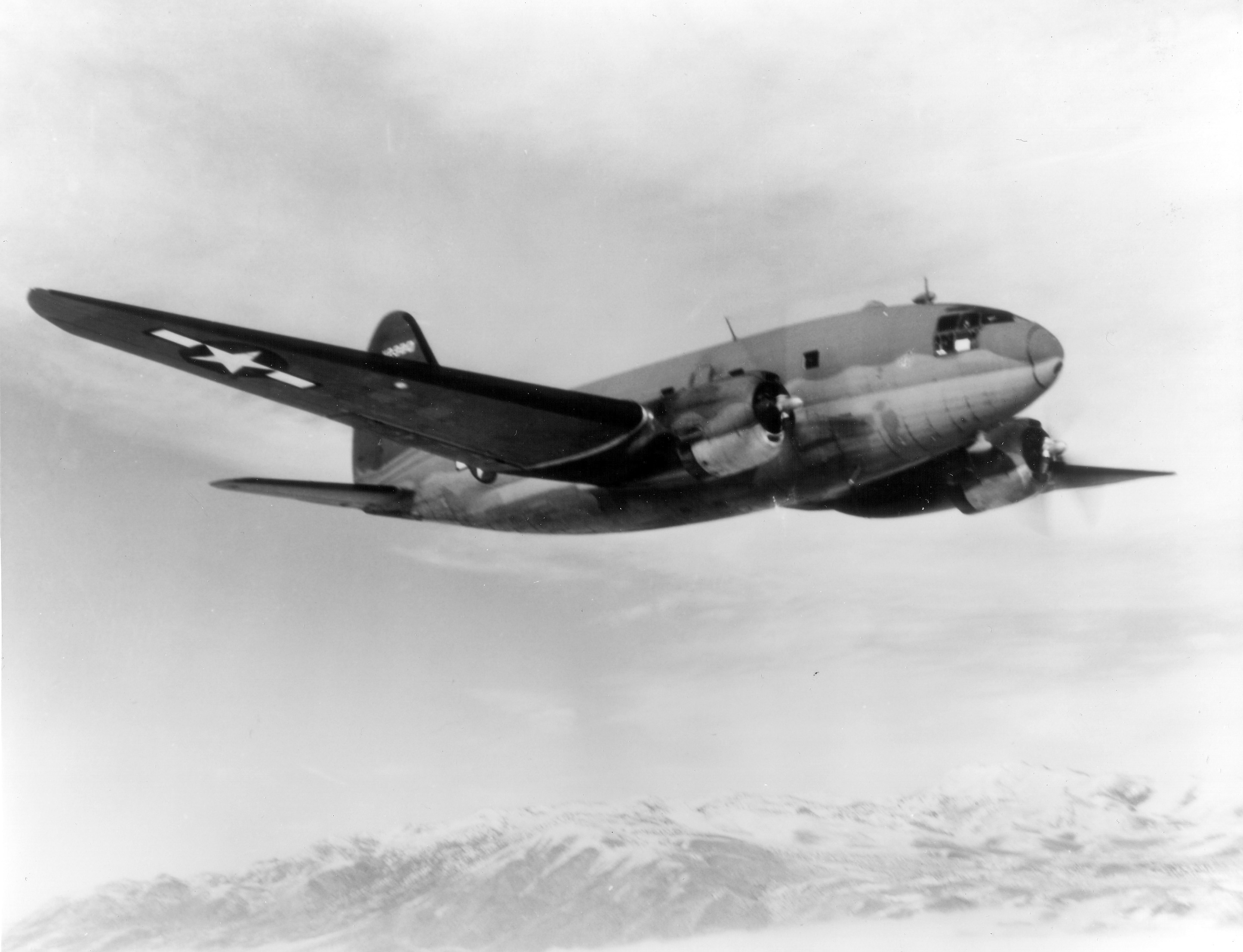 The Curtis C-46 Commando in flight.